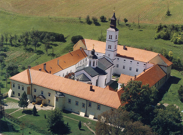 Krusedol